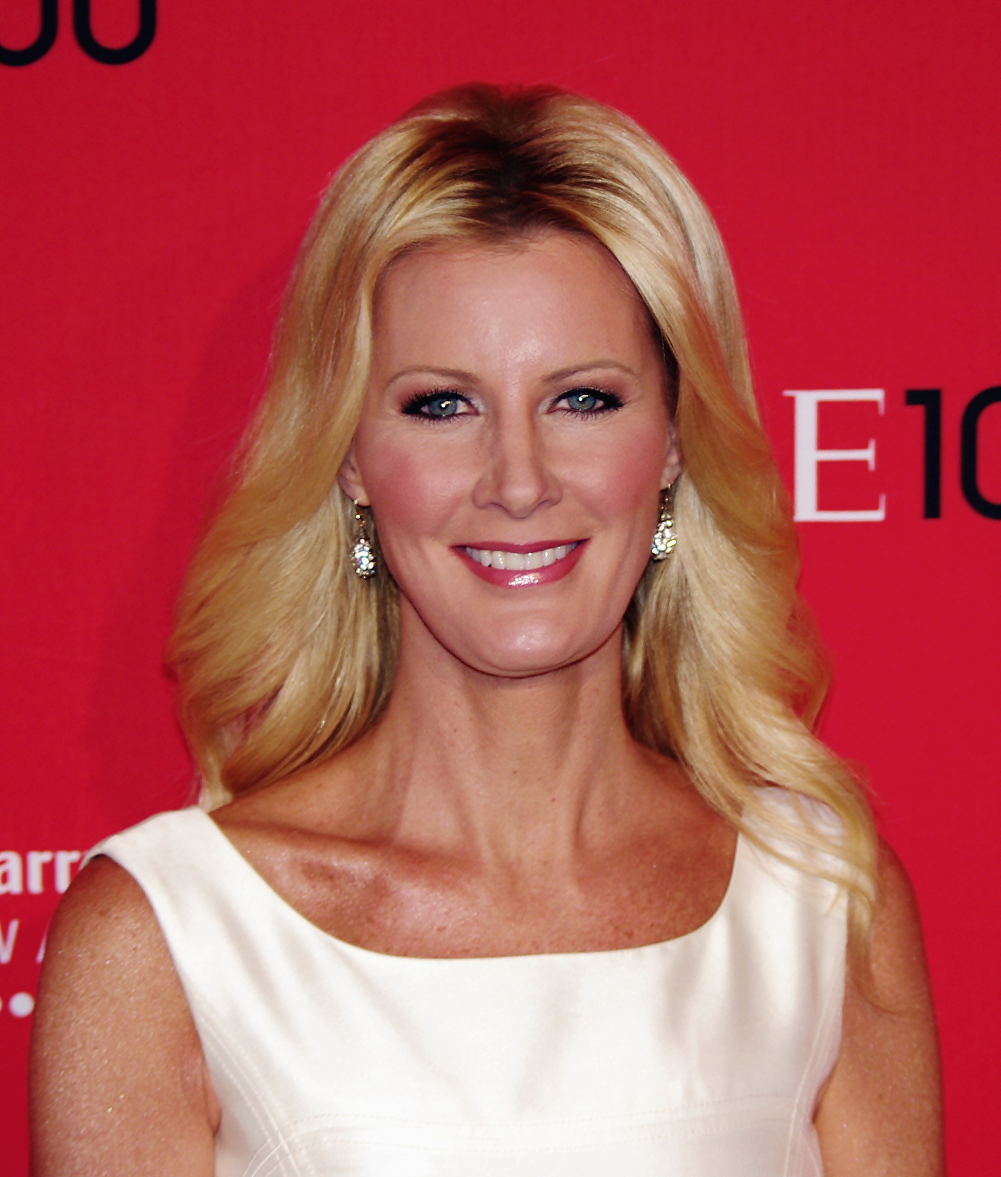 Sandra Lee at the 2012 Time 100 gala.